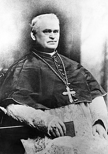 Bishop Patrick Manogue seated with a bible in traditionalchoir dress, cassock and rochet c. 1885 - 1887.